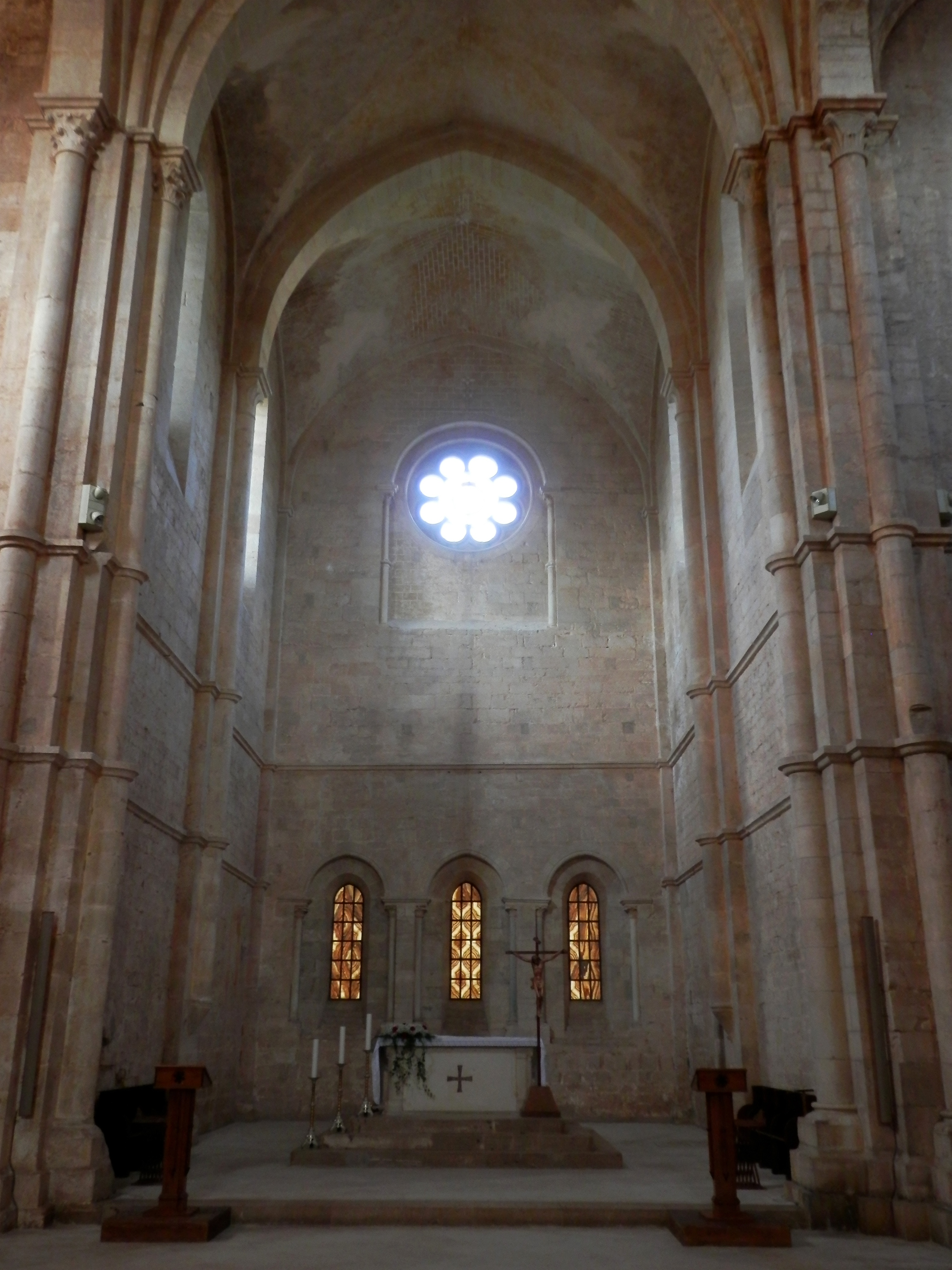 The Fossanova Abbey in Priverno, Province of Latina, Italy